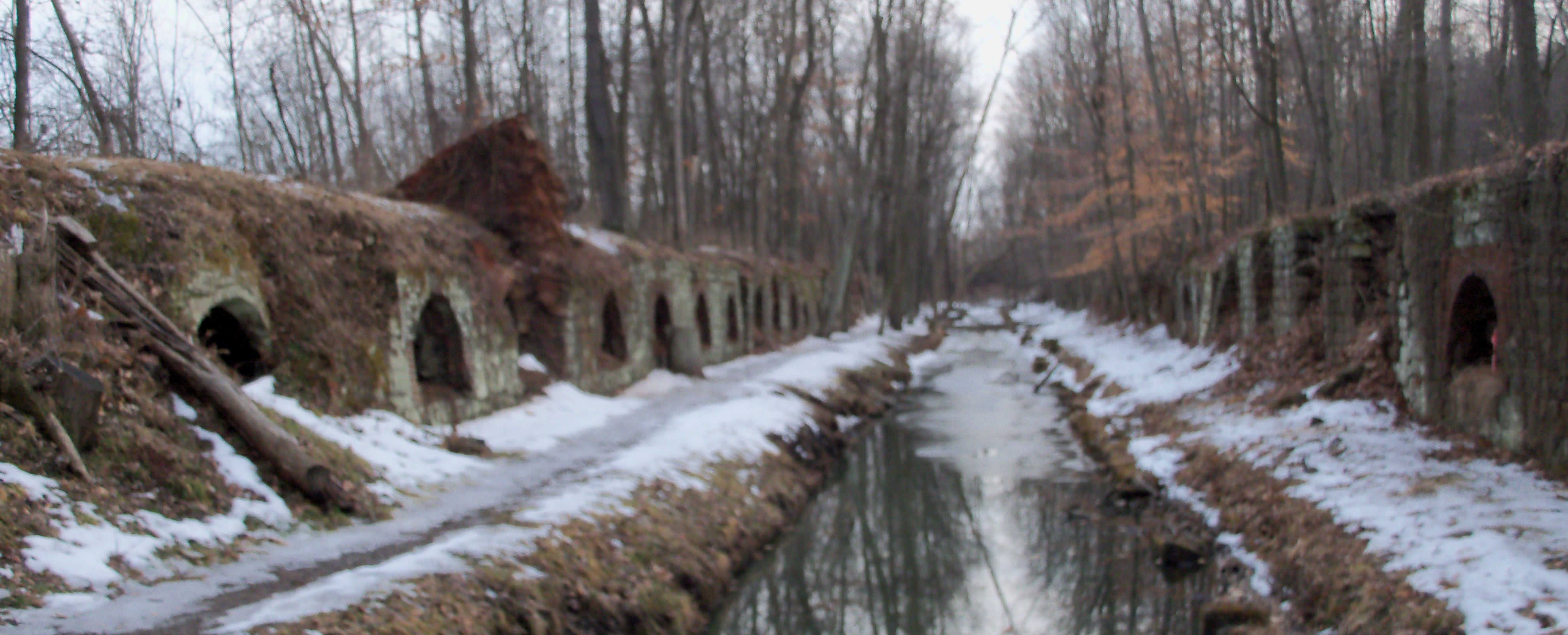 Cherry Valley Coke Ovens, a site on the nrhp in Columbiana County, Ohio